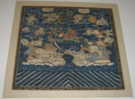 Rank Badge/Mandarin Square 5th Rank (Bear) Circa 1860